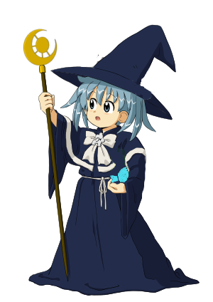 Artists impression of the tooth fairy.